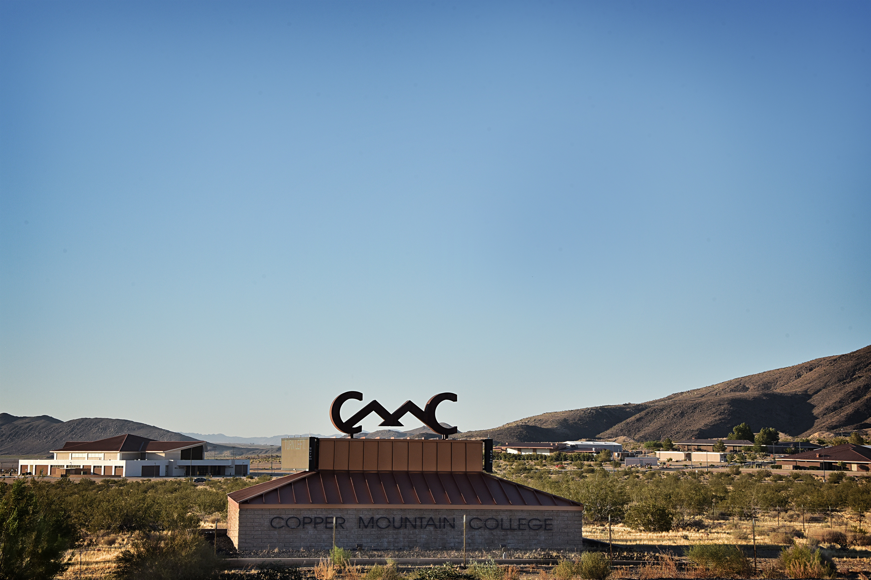 Copper Mountain College Sign with campus in background in June 2017 - Photo by Glenn Francis of